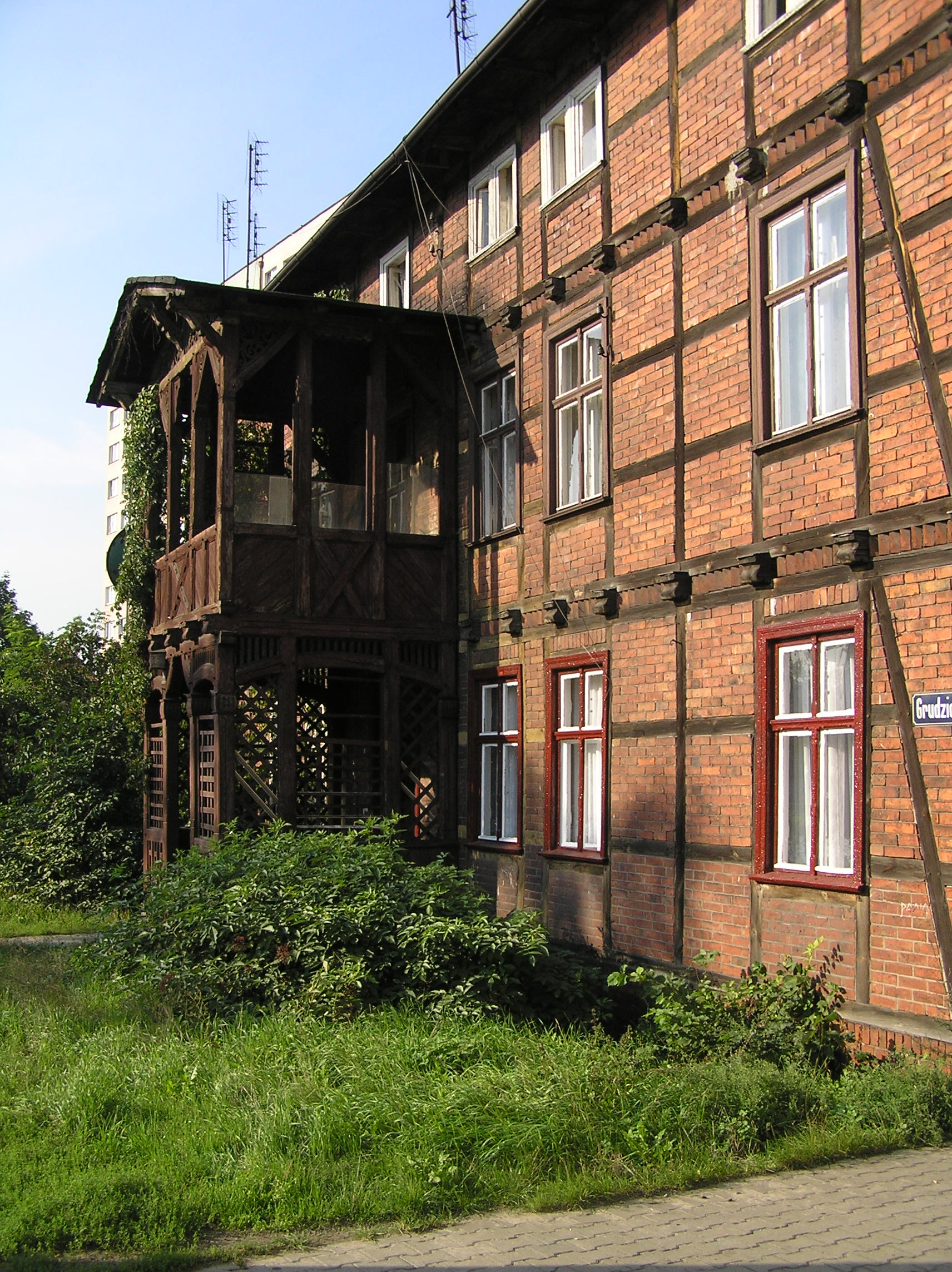 Toruń, Mokre district, half timbered house at Grudziądzka Str.